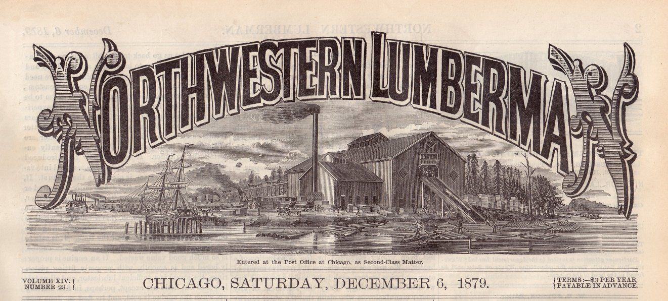 Northwestern Lumberman journal cover